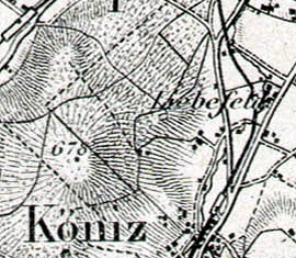 Example for the use of hatchings in maps.